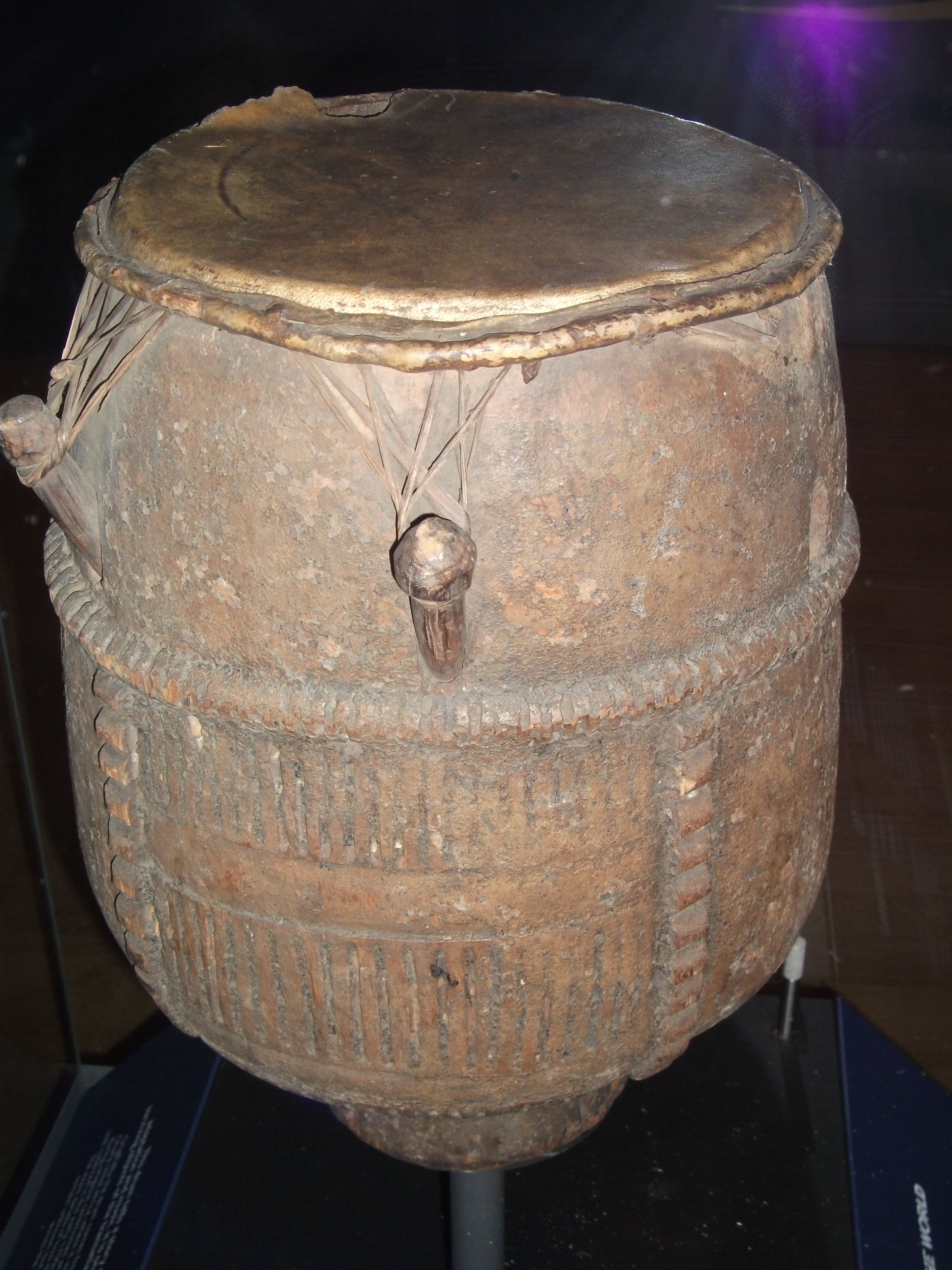 British Museum; asante drum, made in Africa, found in the US. See A History of the World in 100 Objects, no. 86